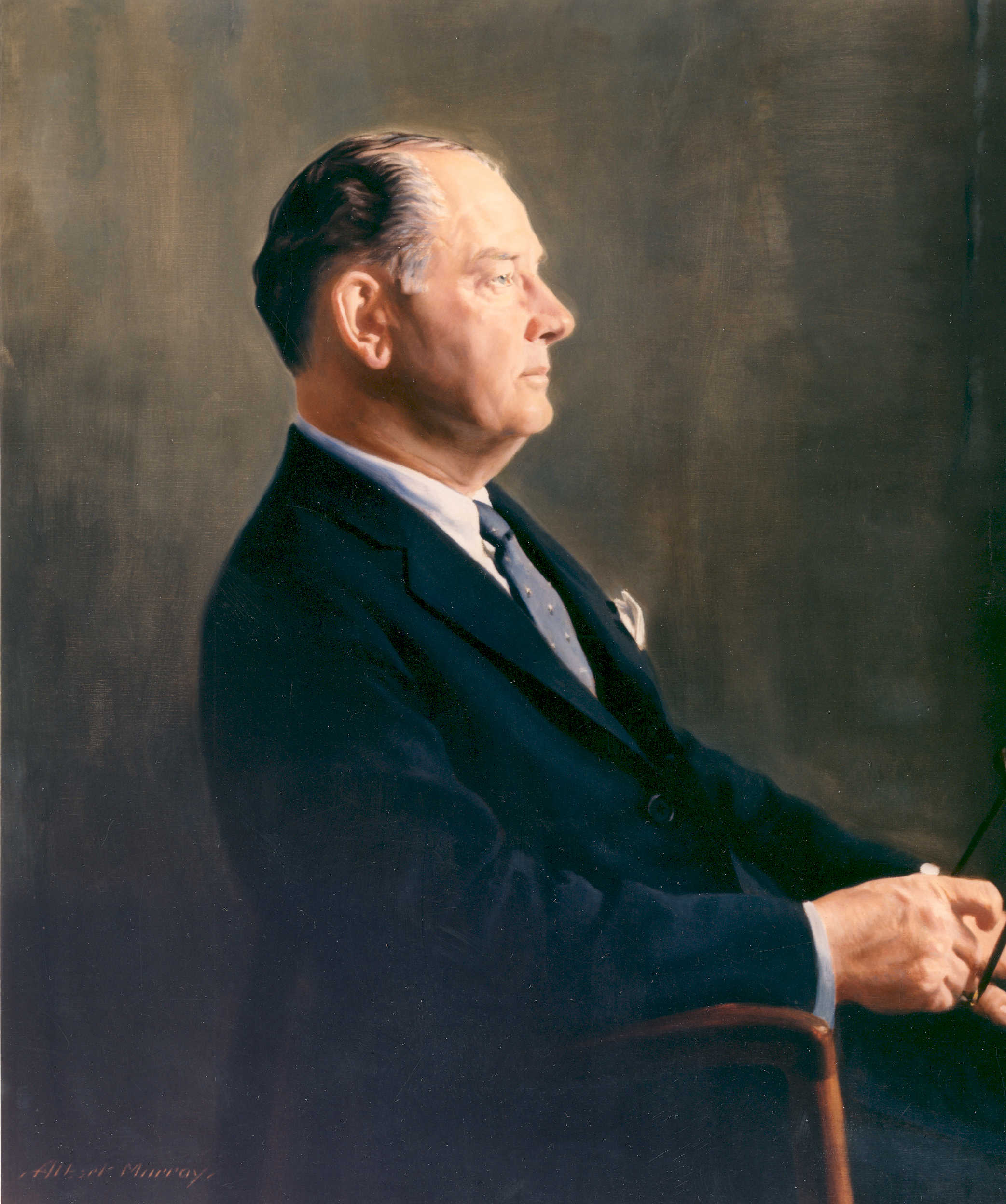 T. (Thomas) Keith Glennan was the first Administrator of the National Aeronautics and Space Administration, established October 1, 1958, under the National Aeronautics and Space Act of 1958. As Administrator, Mr. Glennan headed a staff of scientists, engineers, technicians, and other employees engaged in research and development in aeronautics and space matters. In this position he was a member of the president's National Aeronautics and Space Council. Born in Enderlin, North Dakota, on September 8, 1905, Mr. Glennan earned a degree in electrical engineering from the Sheffield Scientific School of Yale University in 1927. Following graduation, he worked in the newly developed sound motion picture industry, and later became assistant general service superintendent for Electrical Research Products Company. Mr. Glennan joined the Columbia University Division of War Research in 1942, serving through the war, first as Administrator and then as Director of the U.S. Navy's Underwater Sound Laboratories at New London, Connecticut. For his work he was awarded the Medal of Merit. Following the war Mr. Glennan became an executive of the Ansco Corp., Binghamton, New York, and became the President of the Case Institute of Technology in 1947. While serving as President at Case he also served with the Atomic Energy Commission. He was NASA's Administrator from 1958 until 1961. Mr. Glennan returned to Case in 1961 where he served until he retired in 1966. Although retired, Mr. Glennan spent two years as president of Associated Universities, Inc., an advocacy group for institutions of higher learning. Mr. Glennan died on April 11, 1995, in Mitchellville, MD. Mr. Glennan's portrait was painted by artist Albert Murray of New York.